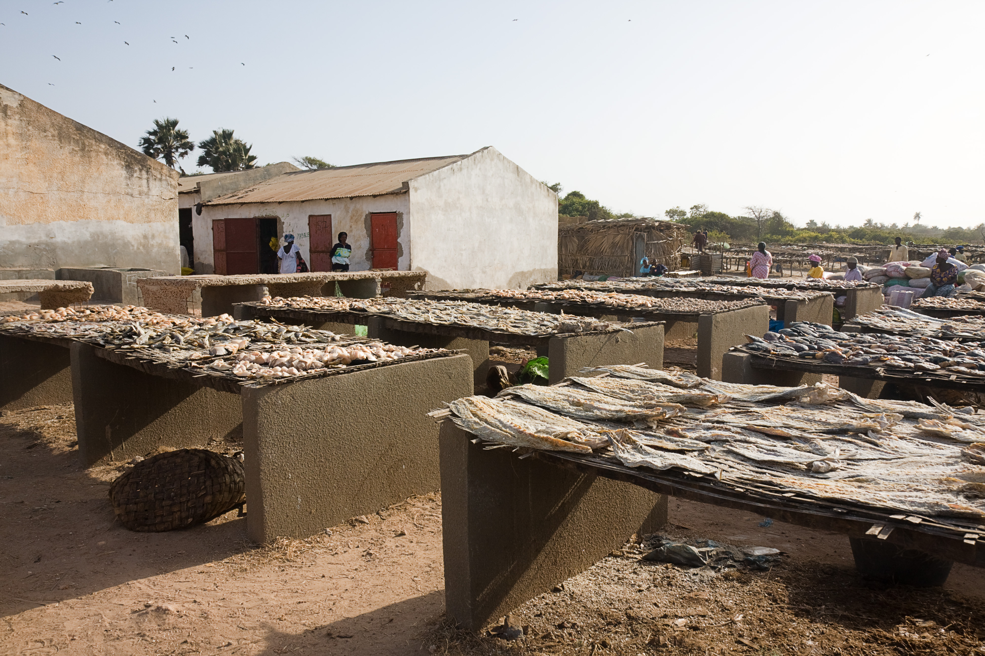 Drying fish on tables in the sun in The Gambia